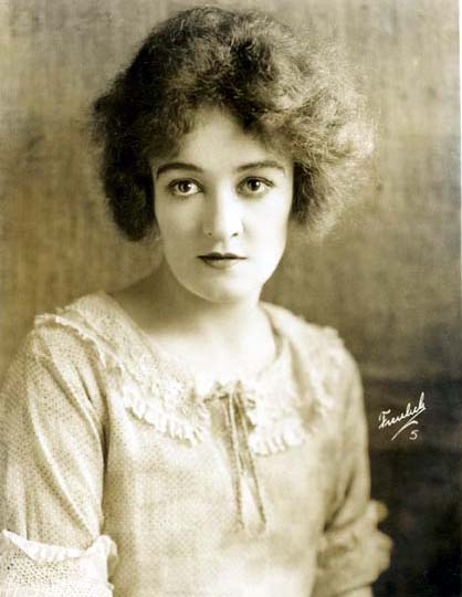 I thought the article on Gladys Brockwell needed at least one picture to illustrate the life of the actress. URL : via